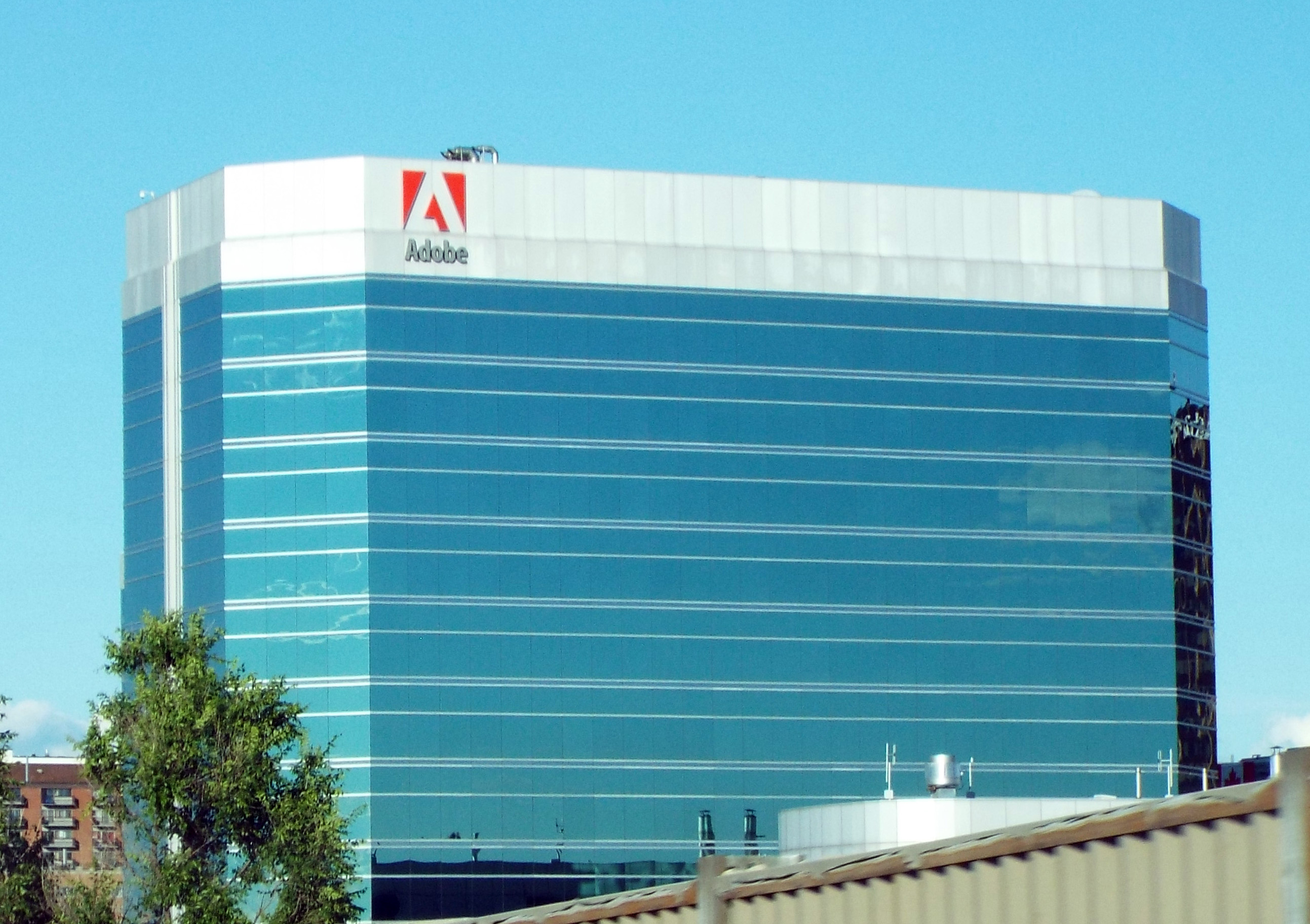 Adobe Systems Canada's office in Ottawa, Ontario. Photographed by user Coolcaesar on July 4, 2014.